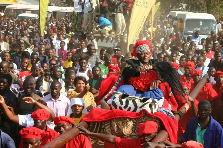 Mwata of the Bemba Tribe in Zambia (Northern Province) being carried to the central location of the traditional ceremony. This is an image of music and dance from Zambia